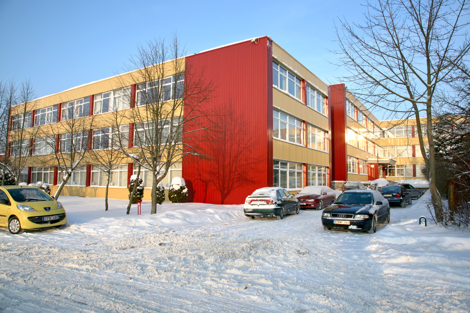 Jurbarkas Naujamiestis secondary school